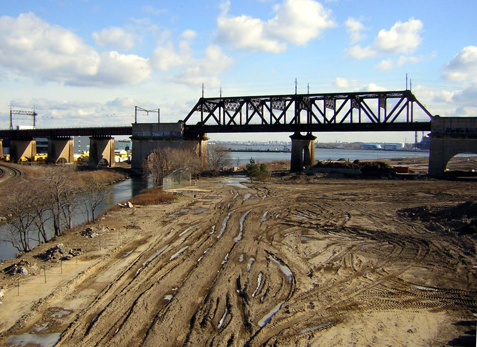 Looking east from Robert F. Kennedy Bridge Bronx leg, at Bronx Kill crossed by truss bridge portion of Hell Gate Bridge. Moved Feb 20, 2008 to Hell Gate Bridge article from Bronx Kill where it was replaced by :Image:Bxkilleast.JPG.